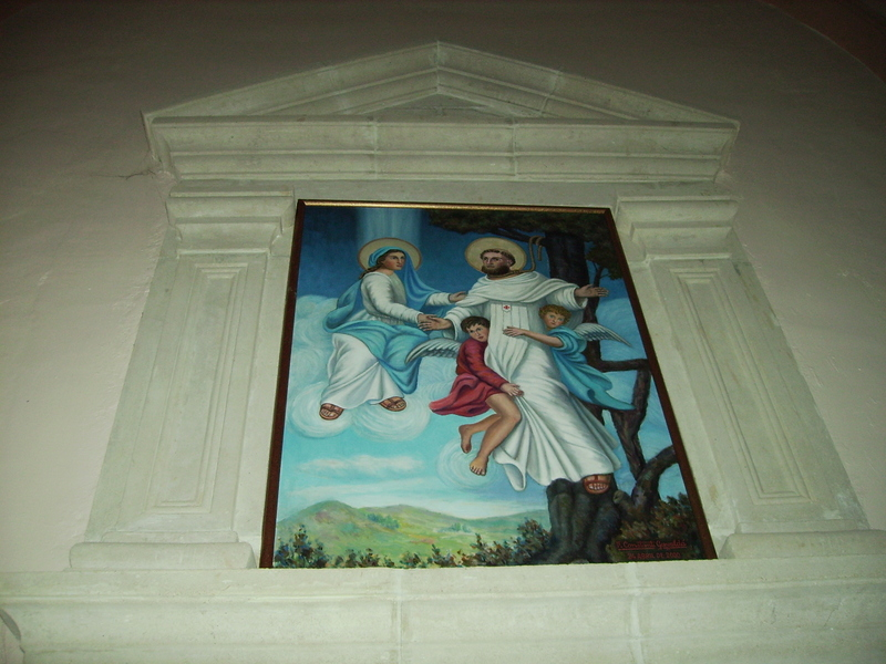 St. Peter Ermengol; painting in the church of St. Jaume at La Guàrdia dels Prats (Tarragona), his burial place